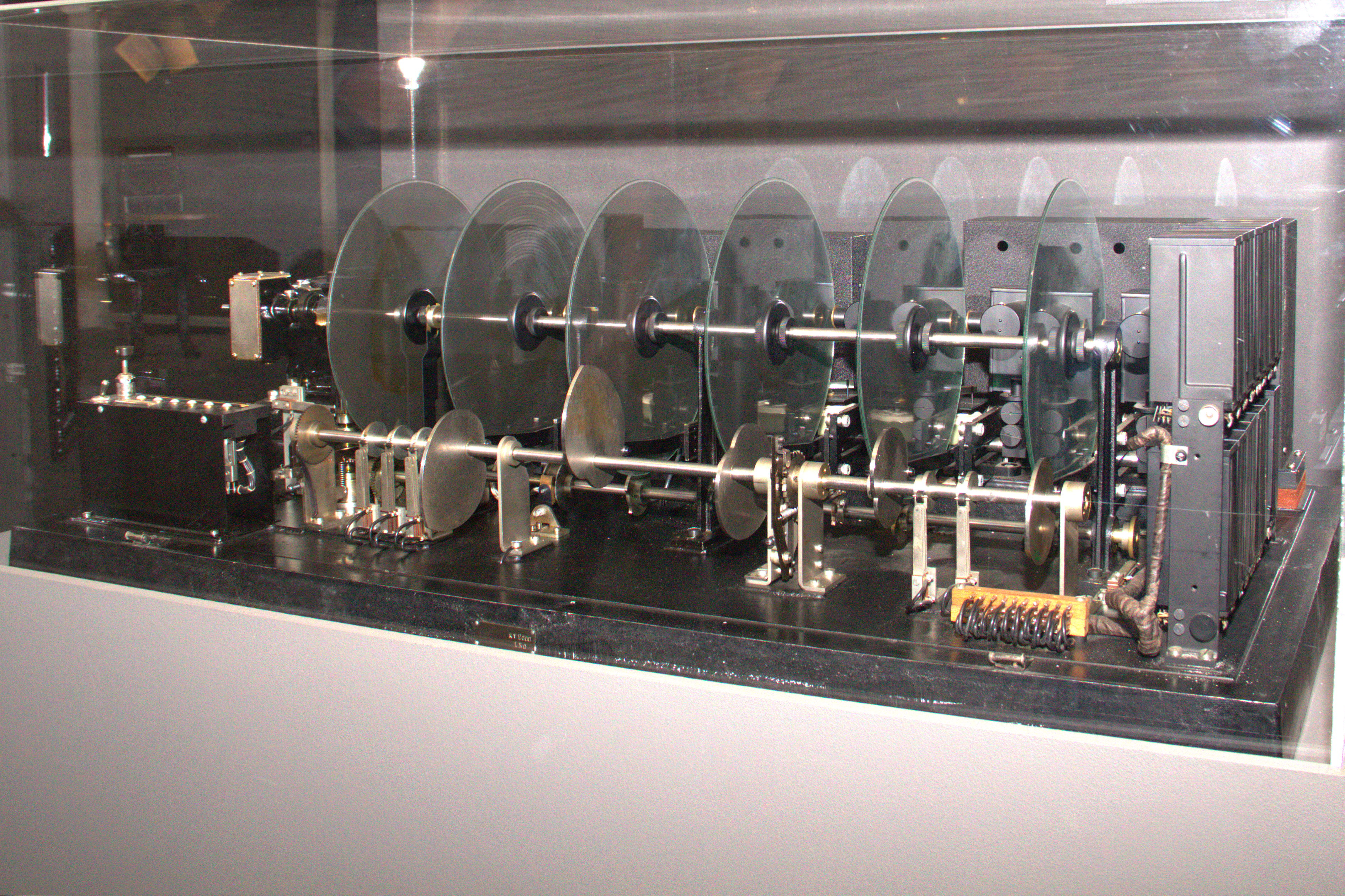 Machinery of Neiti Aika (speaking clock) in Rupriikki Media Museum